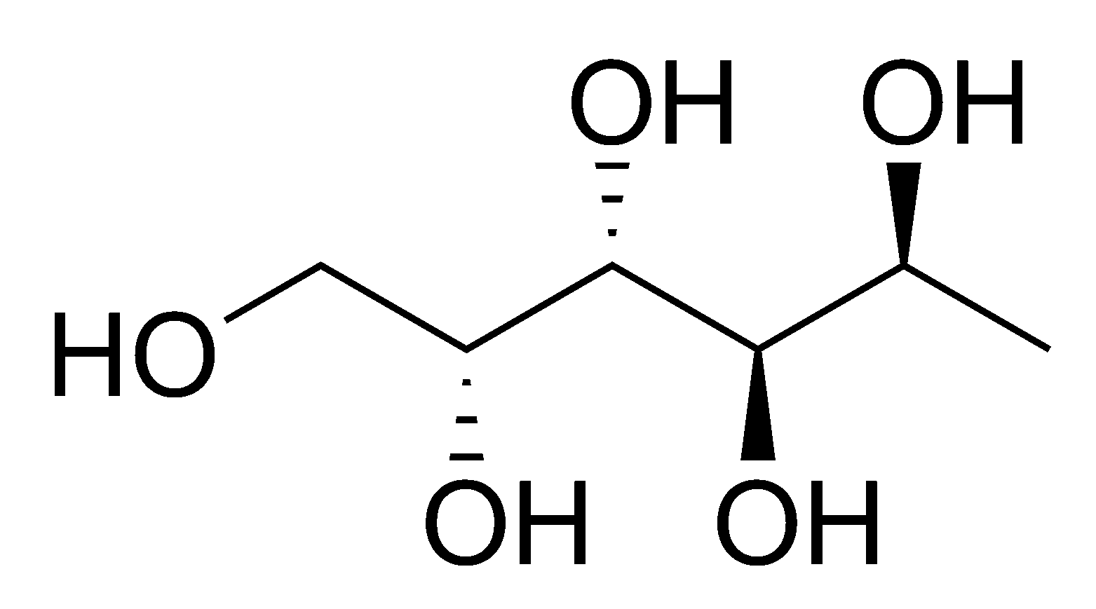 Chemical structure of Fucitol